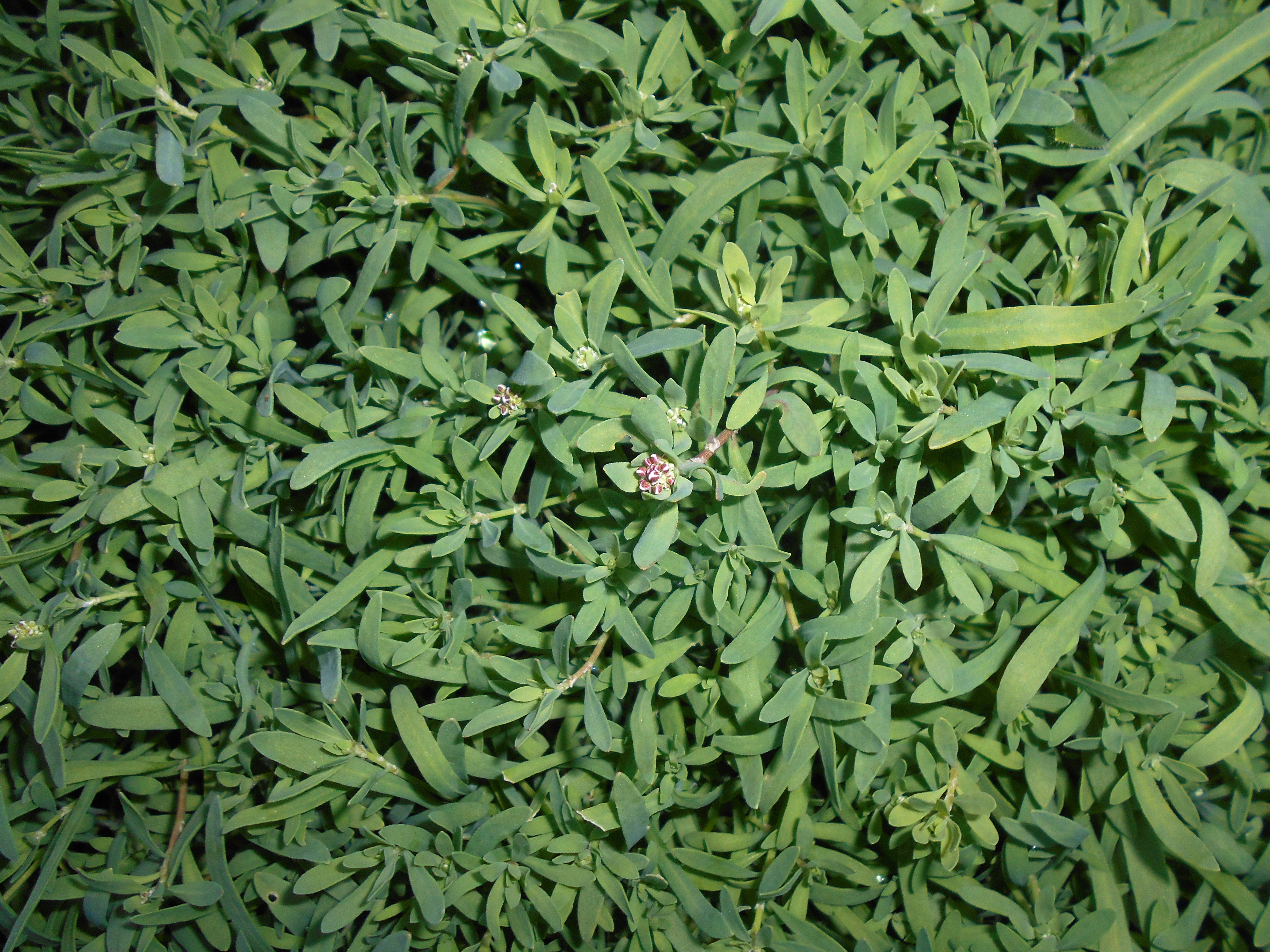 Corrigiola litoralis, Berlin-Dahlem Botanical Garden.